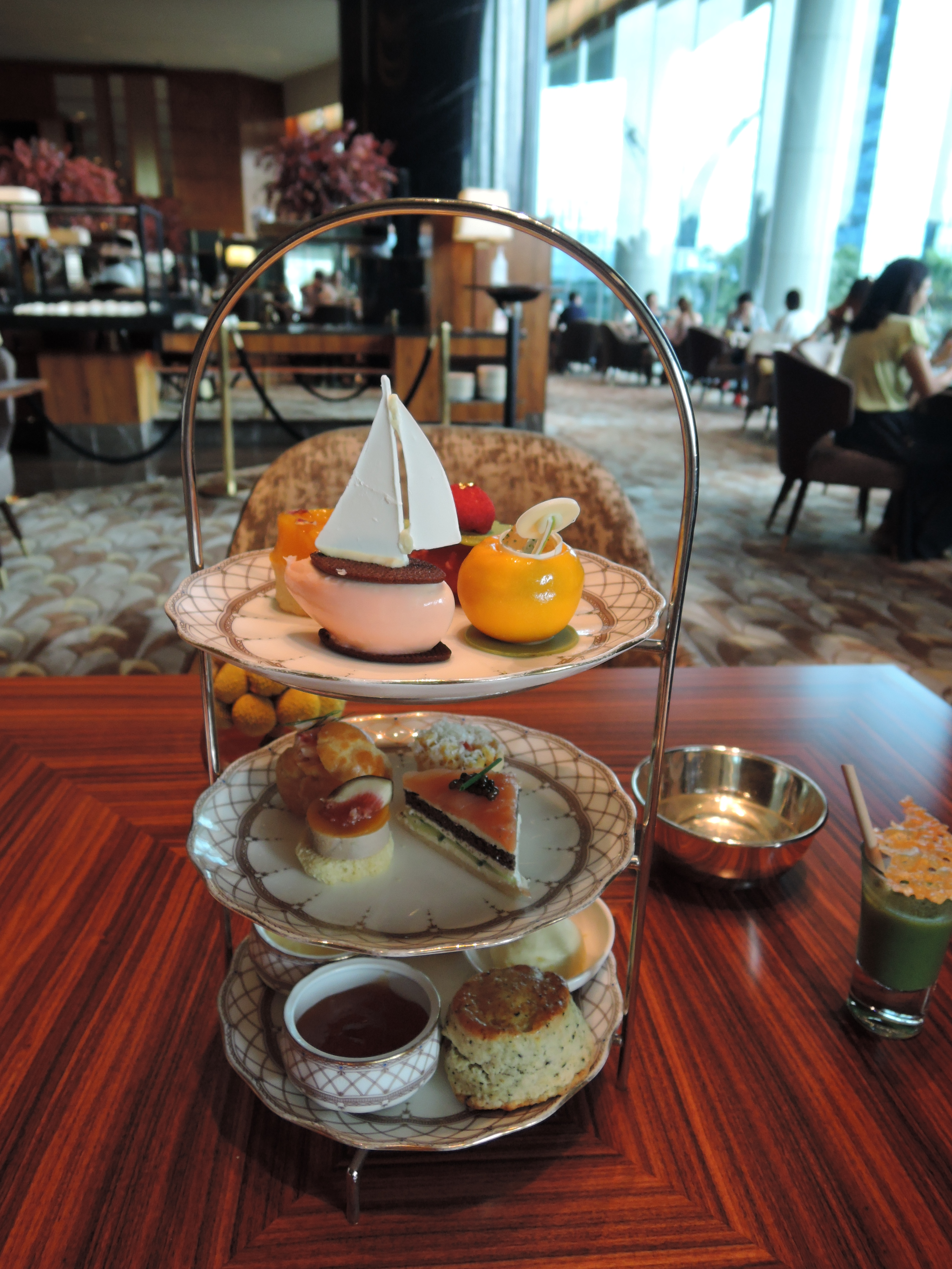 Afternoon meal set in Tiffin Western restaurant at Wan Chai